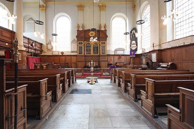 St Benet Paul's Wharf, Queen Victoria Street, London EC4 - East end, near to City of London, Great Britain.